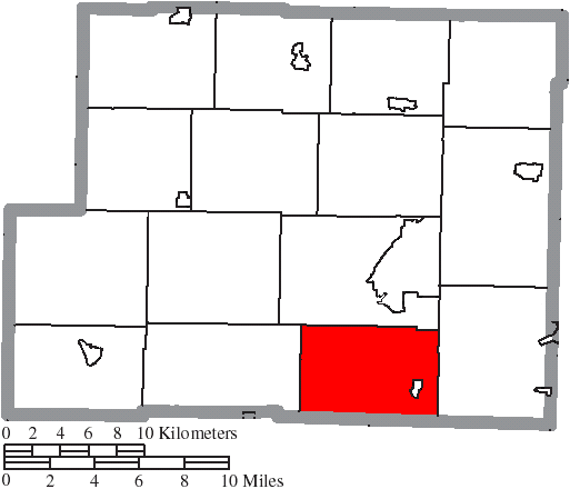 Map of the municipal and township boundaries of Harrison County, Ohio, United States, as of the 2000 census, with the location of Athens Township highlighted. Township borders are shown only in unincorporated areas in order to differentiate incorporated and unincorporated areas more clearly.